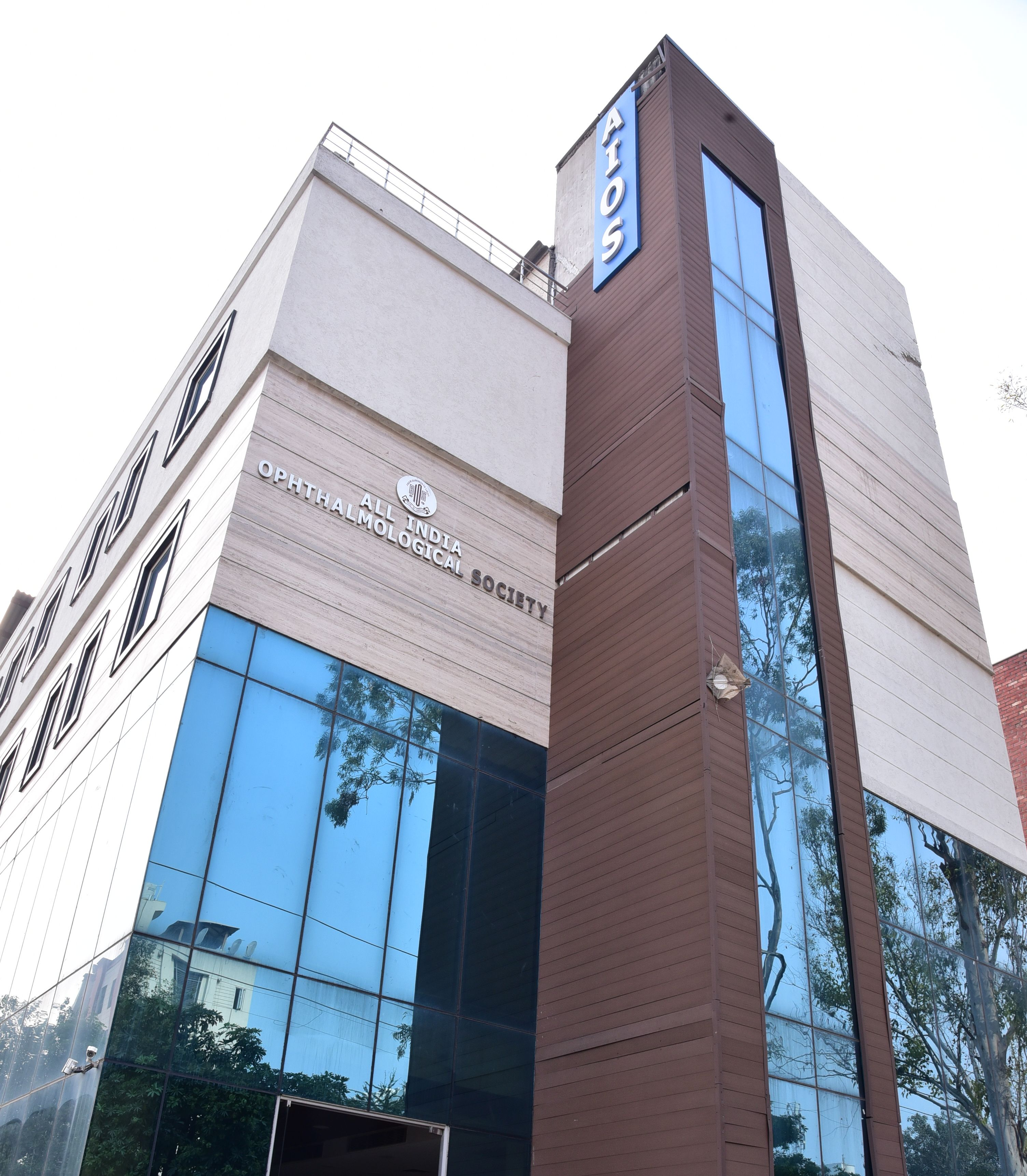 This actual Picture of AIOS